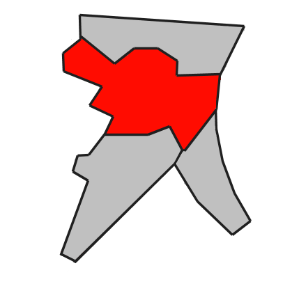 Selfdrawn map of a neighbourhood in Steenbergen.